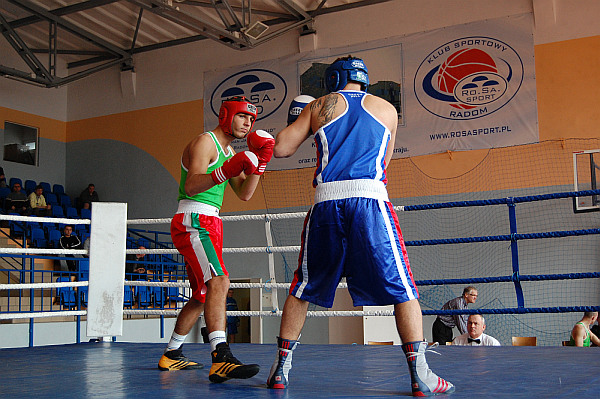 one of Radomiak Radom boxers (from left)